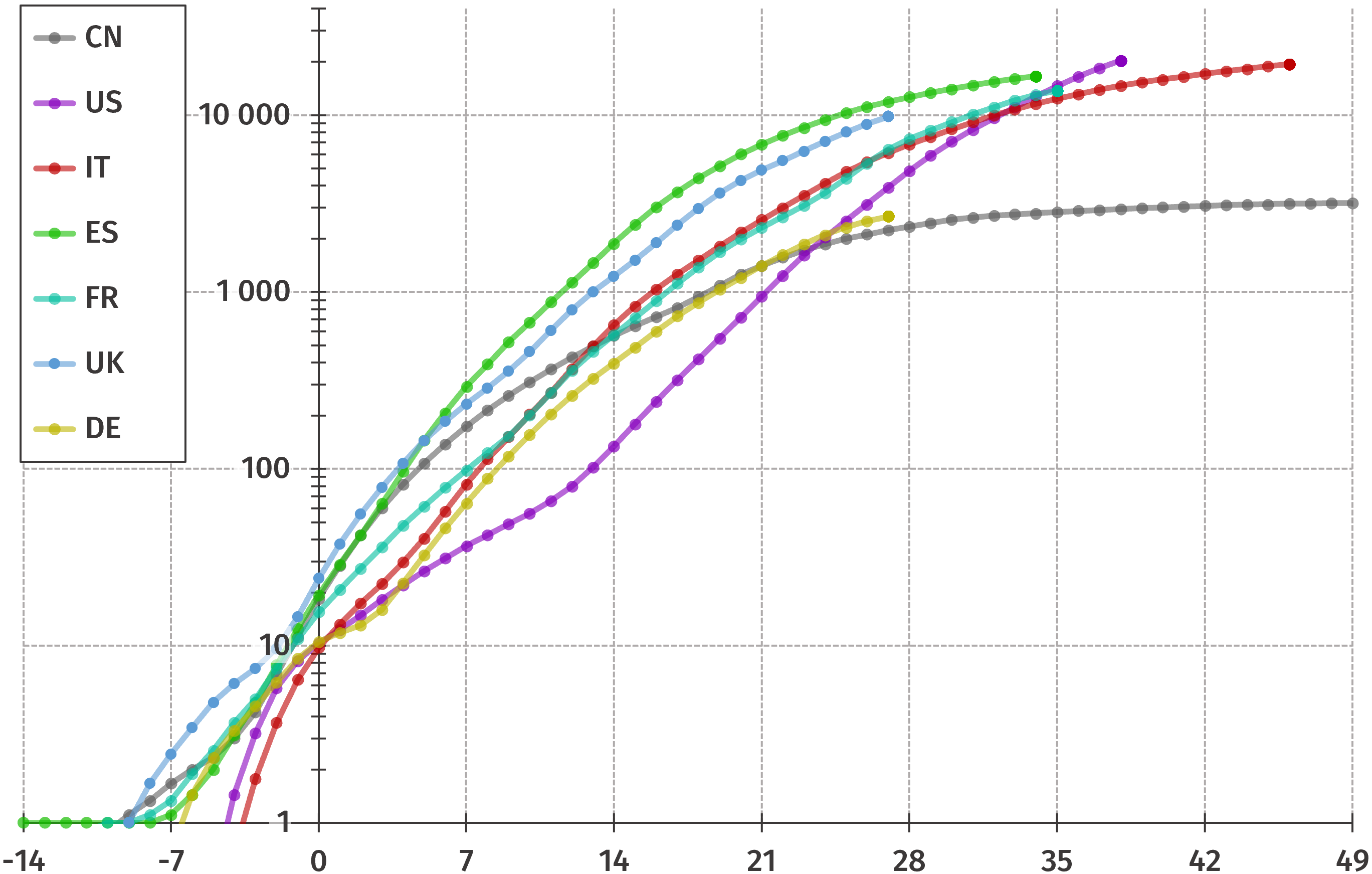 This diagram shows the development of reported Coronavirus deaths in selected western countries and China. Day zero is the day on which the respective country reported more than 10 cumulative deaths the first time. Data points are smoothed considering 5 days in total: the actual day and both the two preceding and the two succeeding days. Day zeros are: IT: 2020-02-25, DE: 2020-03-15, ES: 2020-03-07, FR: 2020-03-07, UK: 2020-03-14, USA: 2020-03-04, CHN: 2020-01-22 Uses available data from 2020-03-30 Smoothing formula is: G n = ( R n − 2 + 2 R n − 1 + 3 R n + 2 R n + 1 + R n + 2 ) / 9 {\displaystyle G_{n}=(R_{n-2}+2R_{n-1}+3R_{n}+2R_{n+1}+R_{n+2})/9} , G n {\displaystyle G_{n are the smoothed points, R n {\displaystyle R_{n are the actual points.